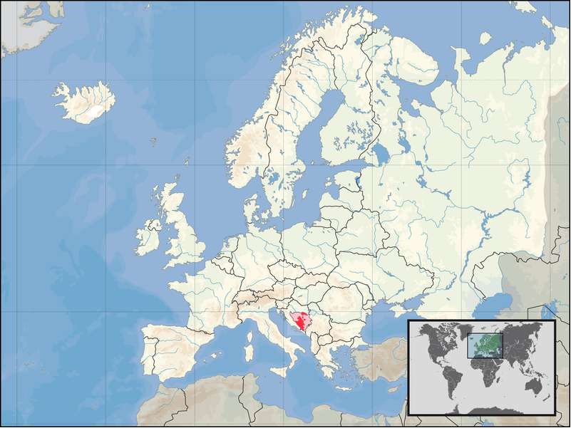 Location of the Croatian Republic of Herzeg-Bosnia (former entity in Bosnia and Herzegovina) in Europe